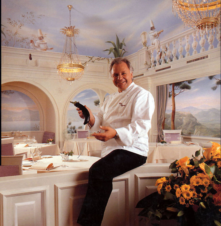 Eckart Witzigmann in front of Rainer Maria Latzke´s murals in the Aubergine restaurant, Munich, Germany